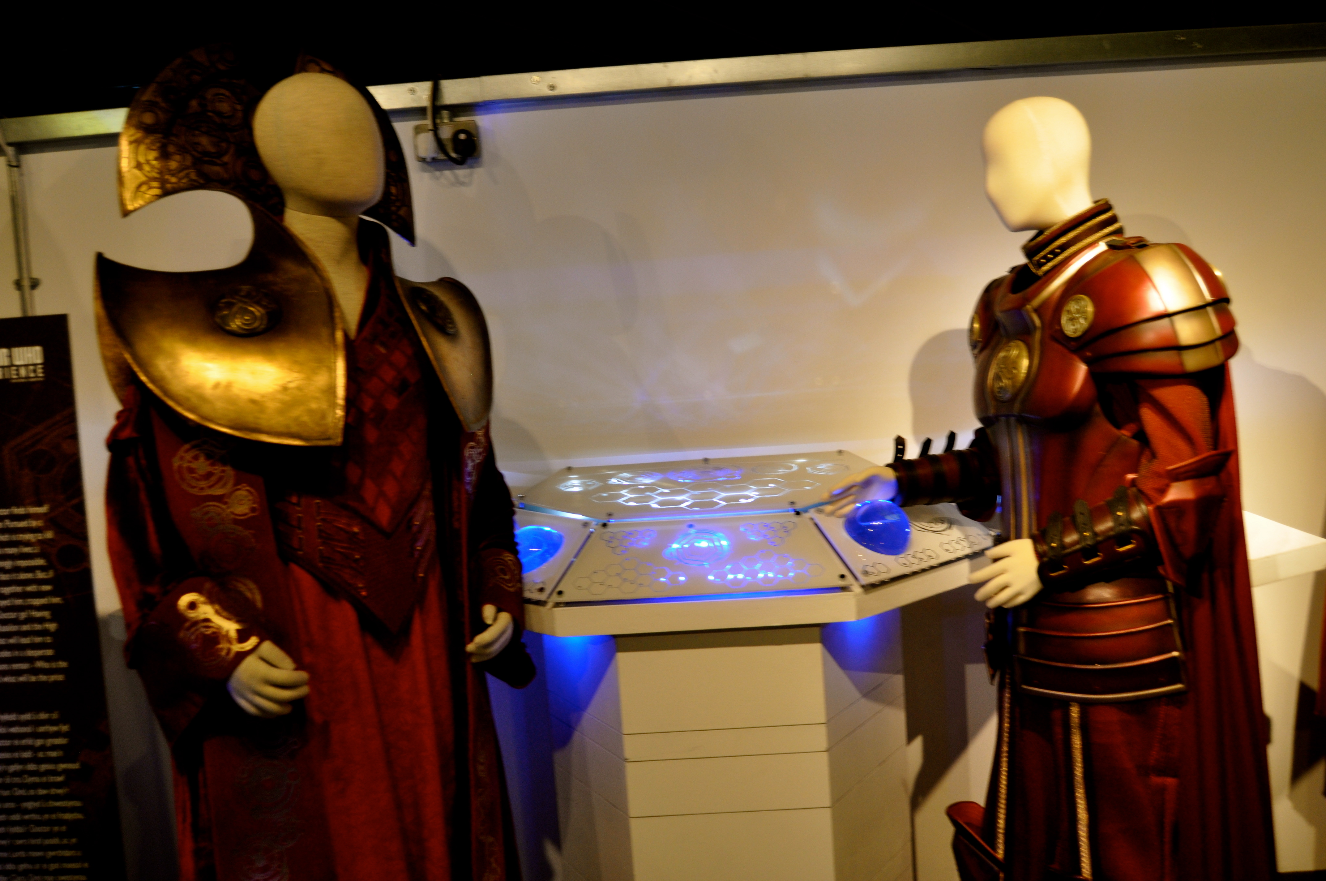 DWE Cardiff Bay, Port Teigr November 2016 Doctor Who Experience